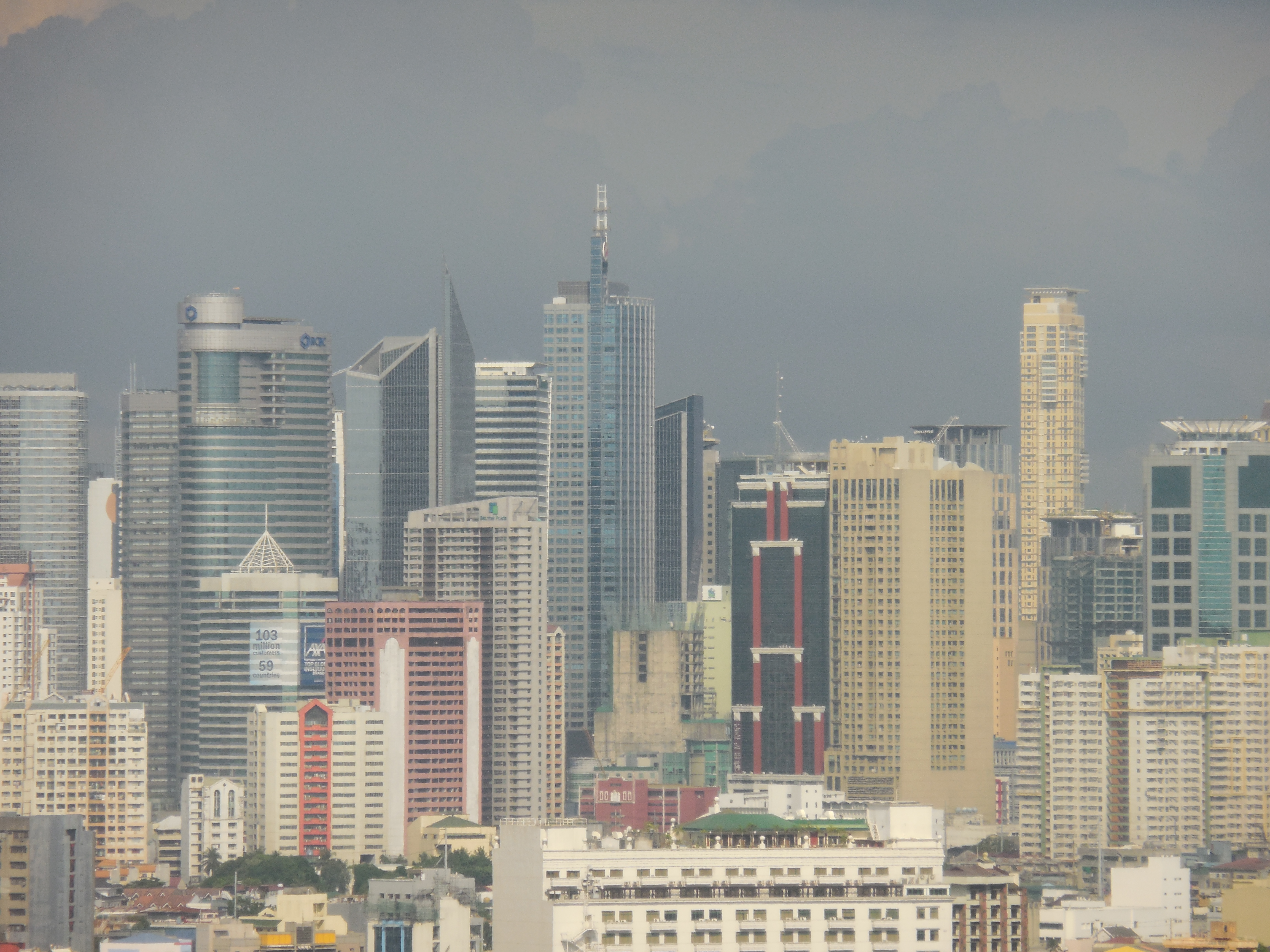 Skyline of Makati City showing the skyscrapers along Ayala Avenue, namely PBCom Tower, GT Tower, RCBC Plaza and Discovery Primea. Taken from the 27th floor of Diamond Hotel in Ermita, Manila.